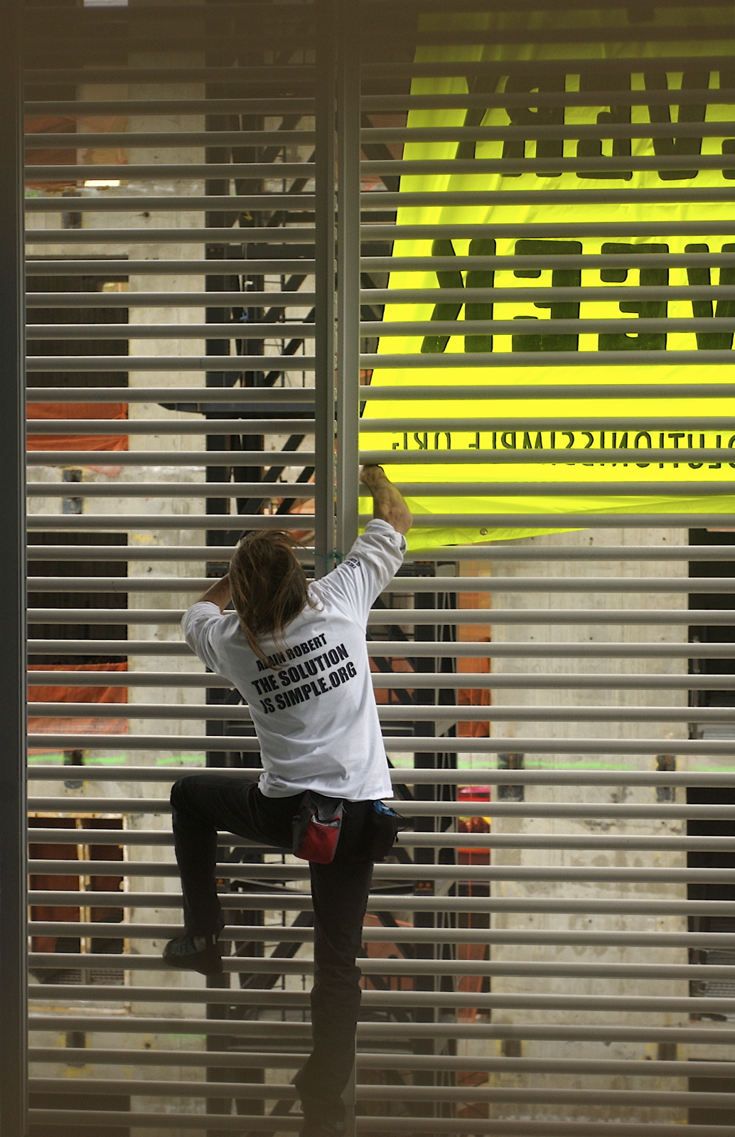 Alain Robert at about the 9th floor, during his climb to the top. His banner read, "Global warming kills more people than 9/11 every week." T-Shirt slogan